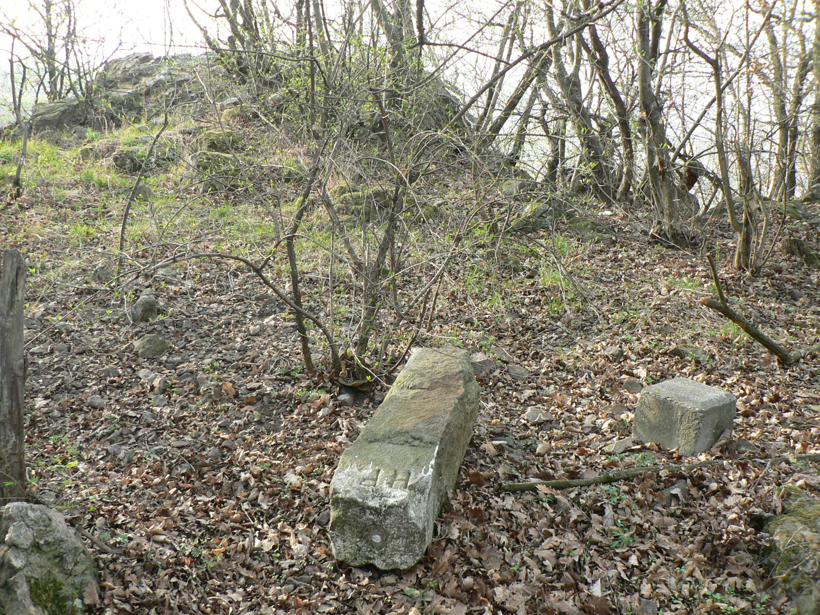 Törött határkő a Les-hegy csúcsa közelében